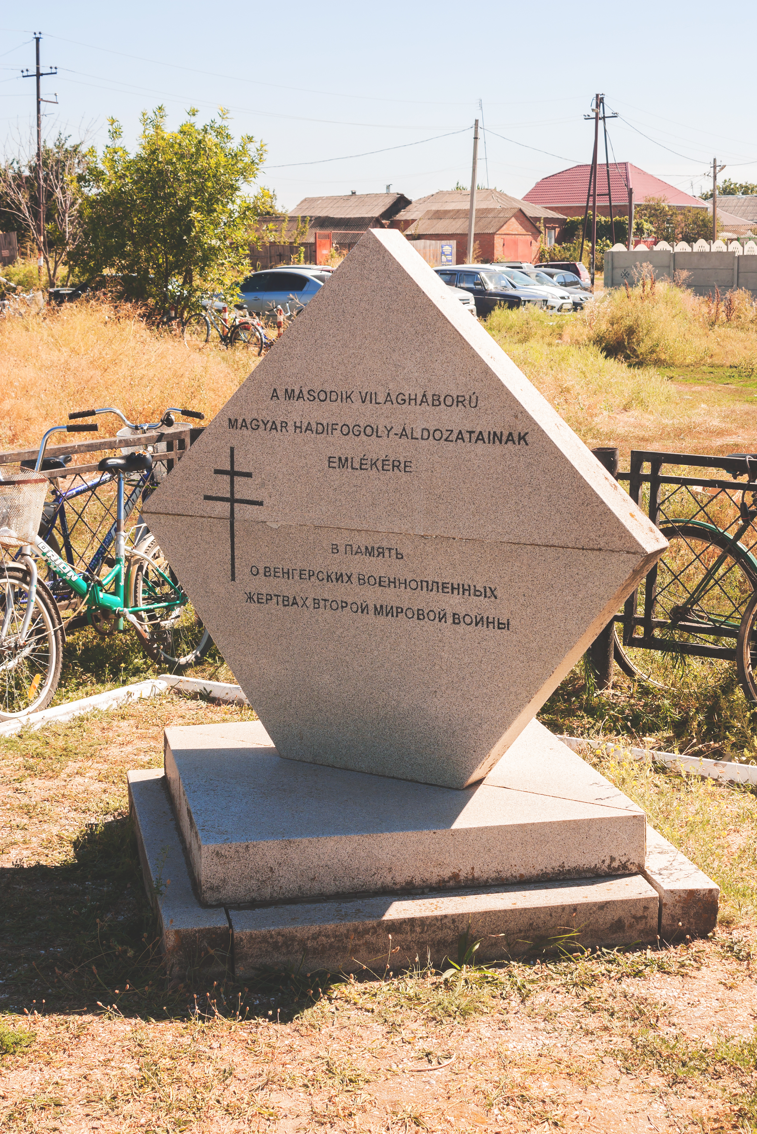 Monument of Hungarian prisoners of war victims of the Second World War, the village Petrushin Neklinovskiy district of Rostov region